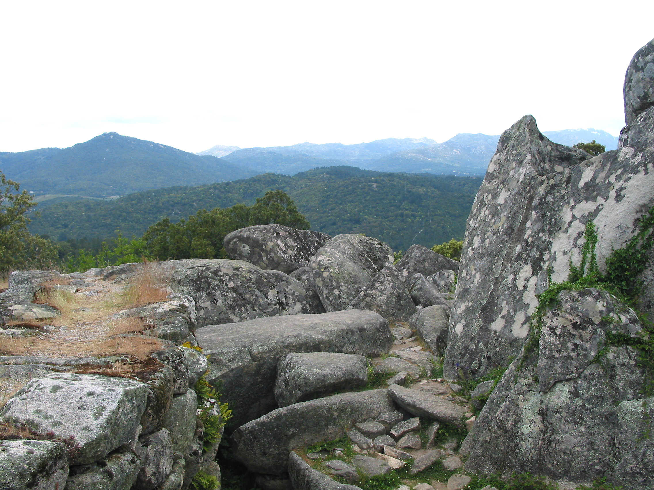 Levie France (Corse-du-Sud), the ruins of the Cucuruzzu prehistoric castle. Walon: Levie France (Corse-do-Sud), lès rwines dol forterèsse prèistorike di Cucuruzzu.